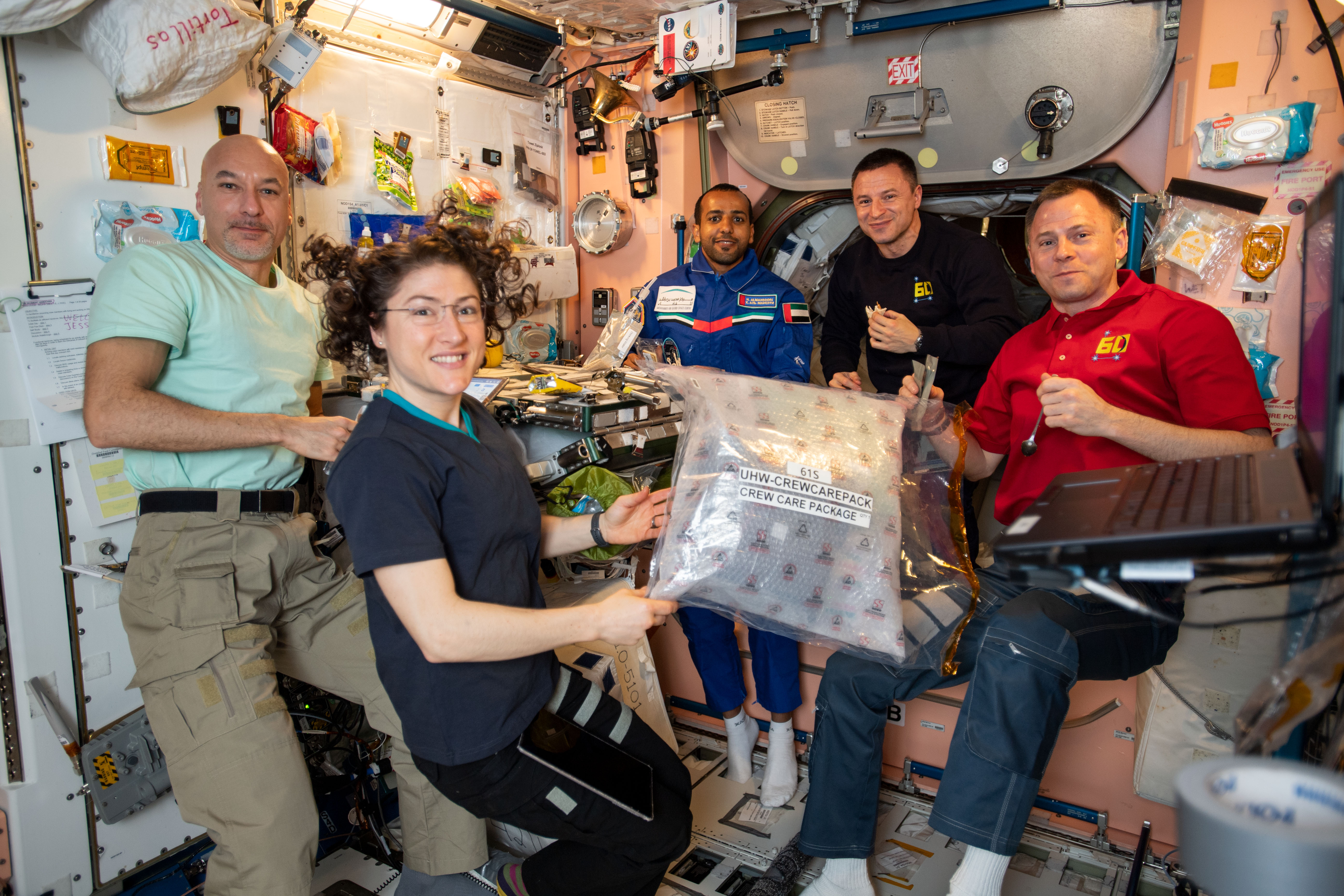 Four Expedition 60 crewmembers and a spaceflight participant gather inside the Unity module for a meal. Pictured from left are, astronauts Luca Parmitano of ESA (European Space Agency) and Christina Koch of NASA, spaceflight participant and United Arab Emirates astronaut Hazzaa Ali Almansoori and NASA astronauts Andrew Morgan and Nick Hague.